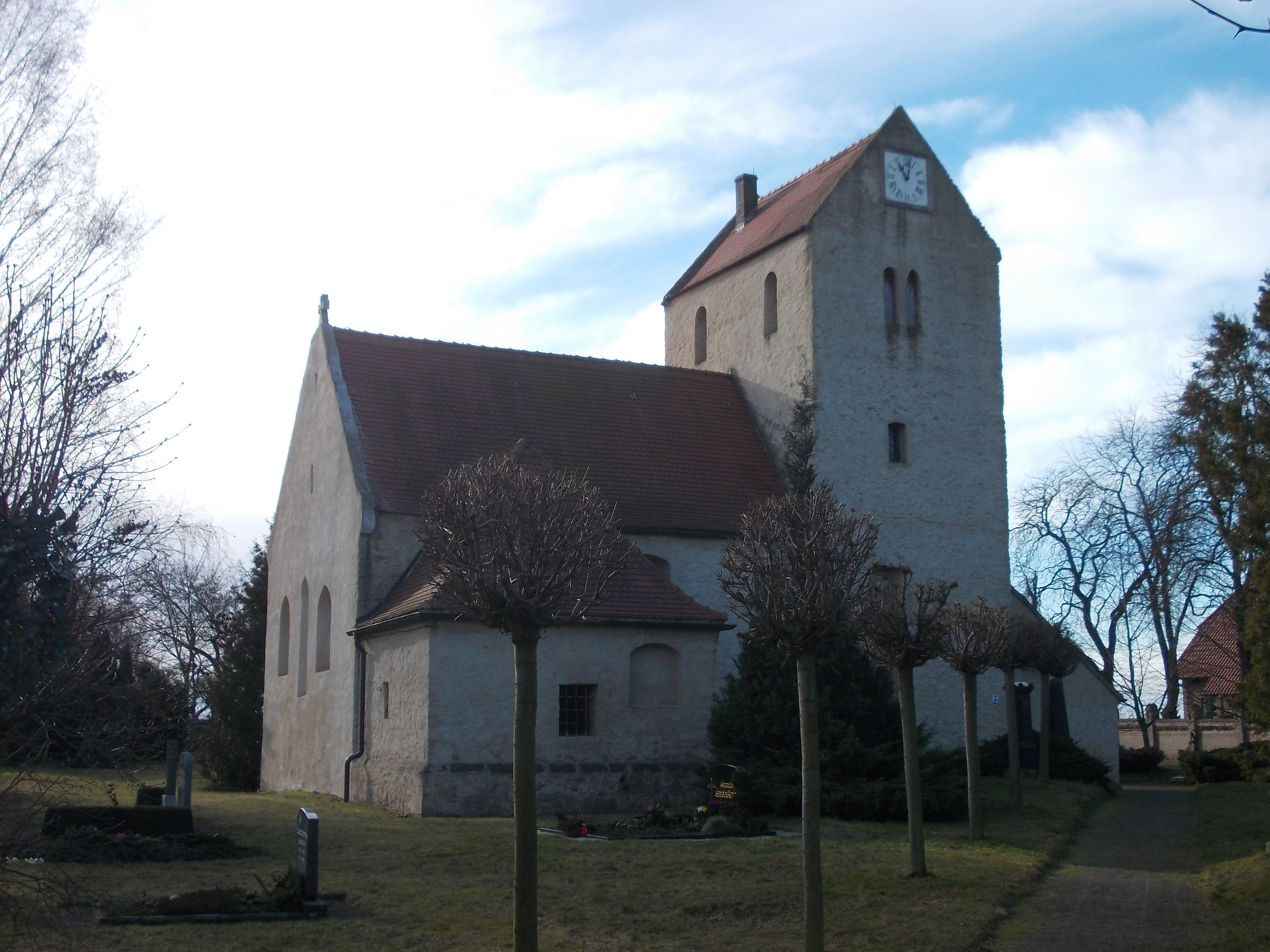 Zwebendorf church (Landsberg, district: Saalekreis, Saxony-Anhalt)